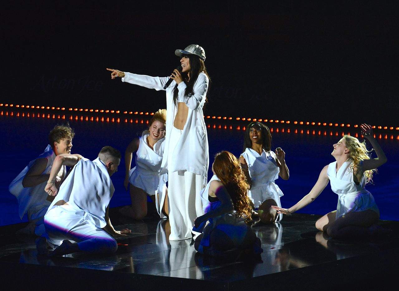 "Art on Ice" at the Globe Arena in Stockholm, March 13, 2014.